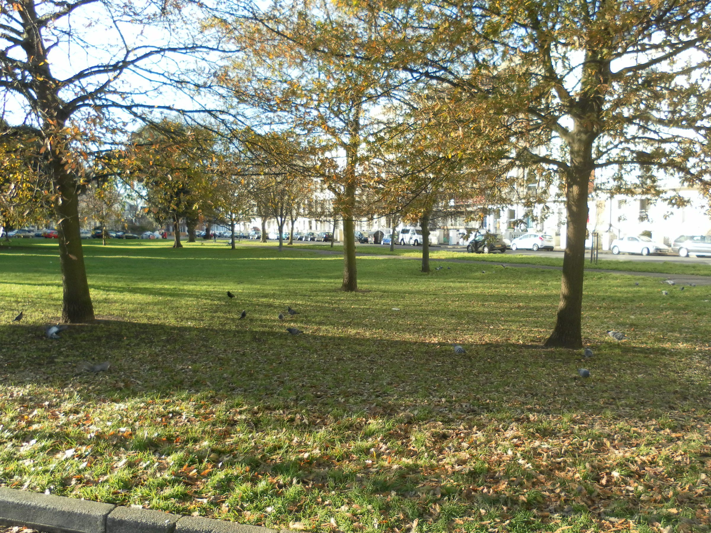 The gardens in front of of Montpelier Crescent, Montpelier, City of Brighton and Hove, England.